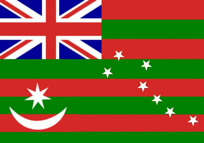 Flag of India Home Rule movement (variant)